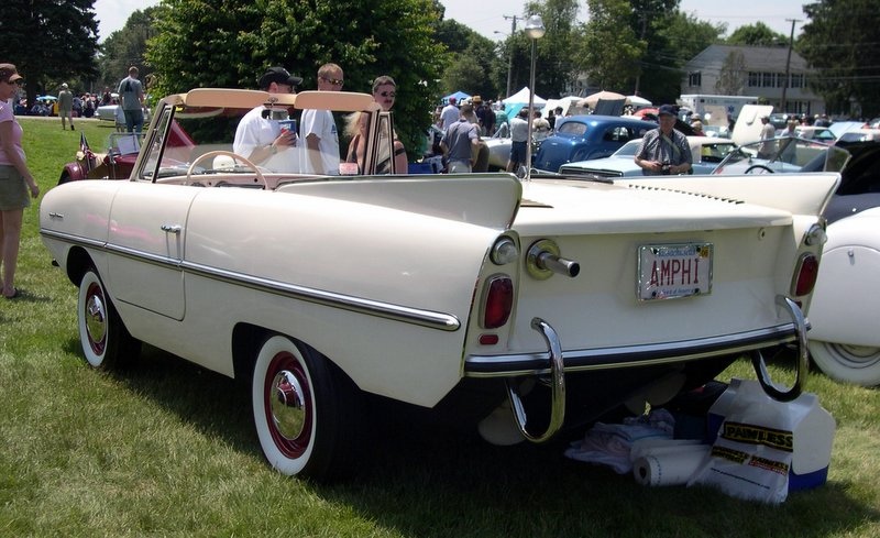 Amphicar